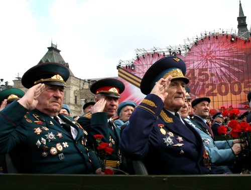 RED SQUARE, MOSCOW. Parade in honour of the 60th anniversary of Victory in the Great Patriotic War.